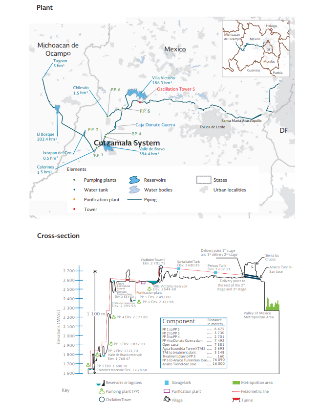 The figure shows the location of the system and the difference in elevation that has to be overcome from the lowest point of Pumping Plant No. 1 to convey water to Oscillation Tower No. 5 and subsequently by gravity to the Metropolitan Area of the Valley of Mexico (MAVM). The Cutzamala System is one of the biggest drinking water supply systems in the world, because of the quantity of water that it supplies (approximately 450 million cubic meters every year), and because of the difference in elevation (1 100 m) that it has to overcome.